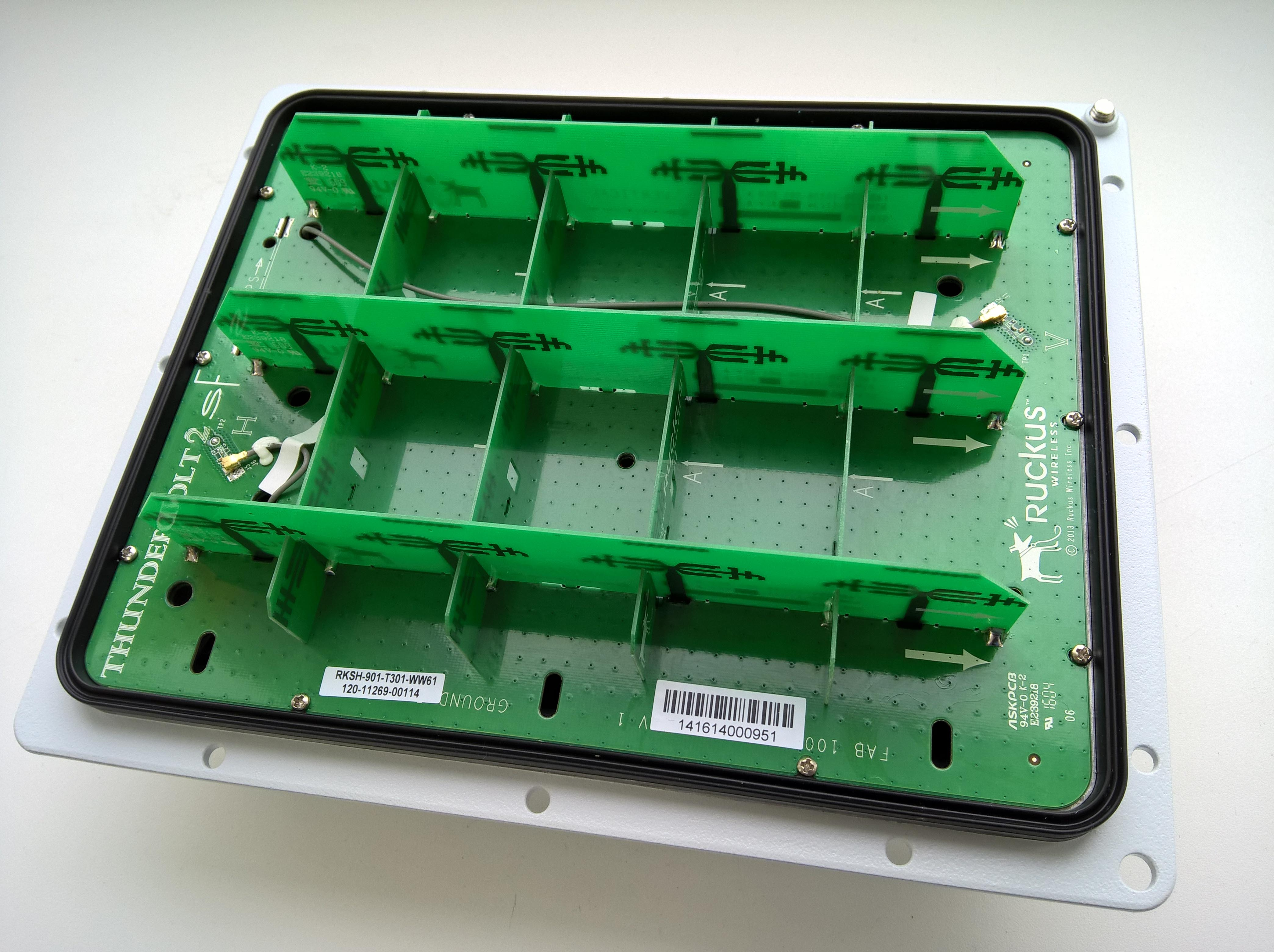 Antennas of Ruckus Wireless ZoneFlex T301n, outdoor access point, concurrent dual-band 802.11abgn/ac, 2x2:2 streams, BeamFlex+